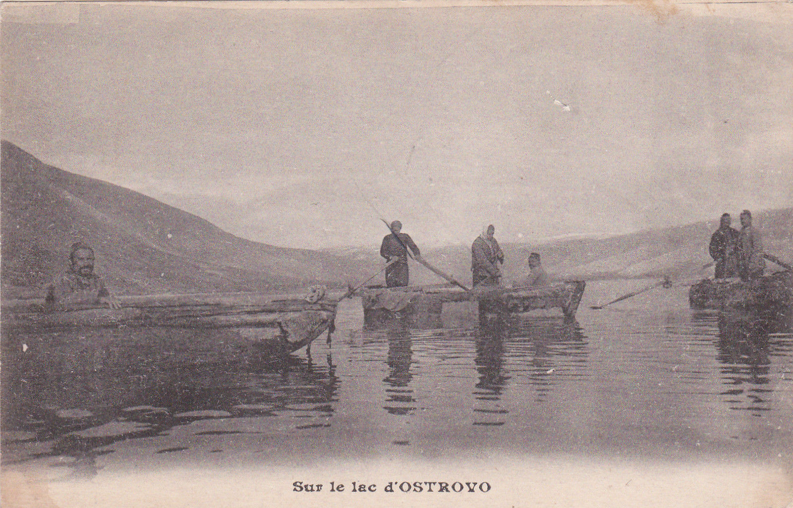 Ostrovo Lake in WWI